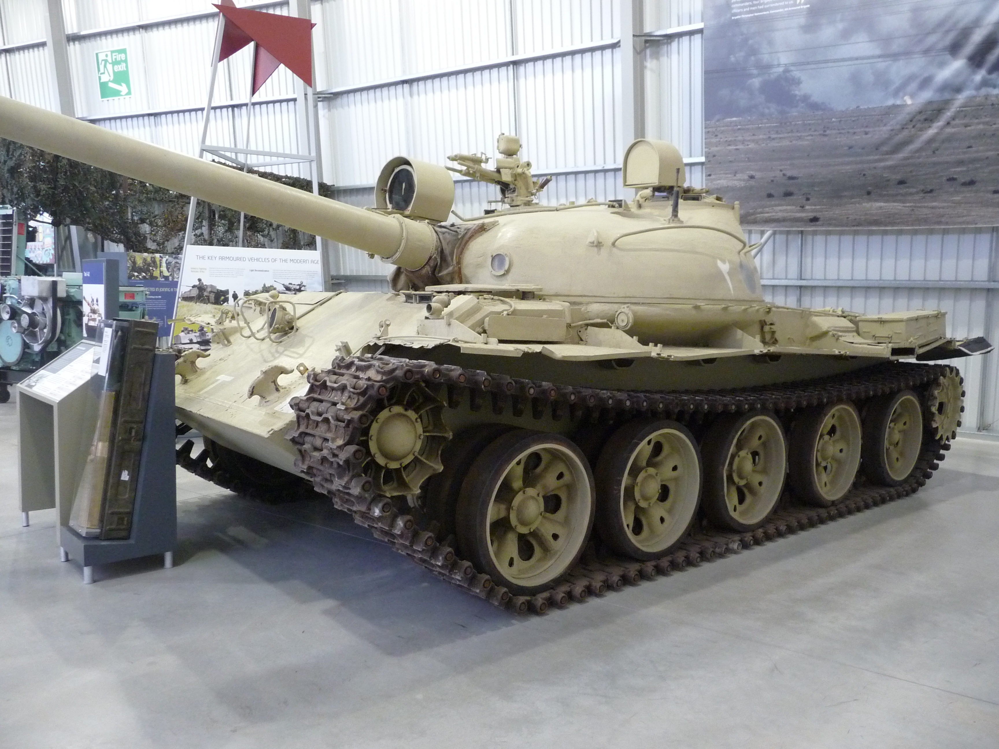 Ex-Iraqi T-62 tank at the Bovington Tank Museum.